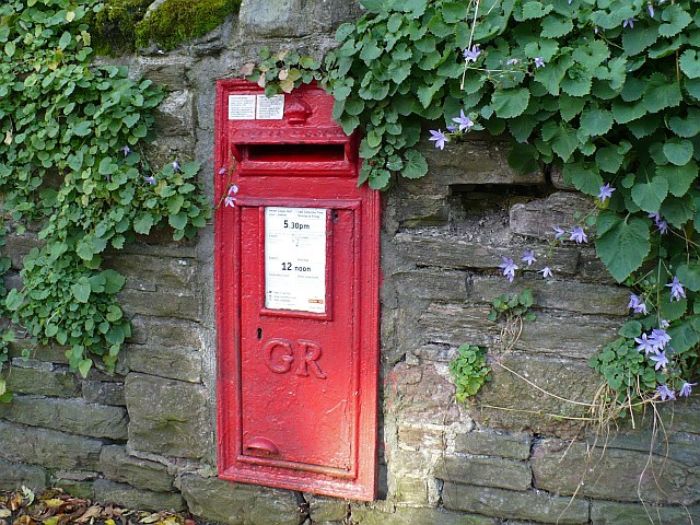 George V postbox with a suffragette connection, Risca Road, Newport In 1913 a small incendiary device was posted in this box. The perpetrator was Margaret Haig Mackworth a member of the Women's Social and Political Union (suffragettes) and the act was part of an arson campaign. A number of letters and cards were burnt and Margaret was fined £10 with £10 costs. On refusing to pay, she was committed to Usk prison 1541844 where she went on hunger strike. She was released under the 'Cat and Mouse Act' and her fine was paid anonymously. Later, she wrote about how she travelled home from London by train with a flimsy basket containing glass tubes of the chemicals for the incendiary device. Margaret was the daughter of David Alfred Thomas who became Lord Rhondda and following his death she became Viscountess Rhondda. She gave the Sugar Loaf , to the National Trust in 1936.